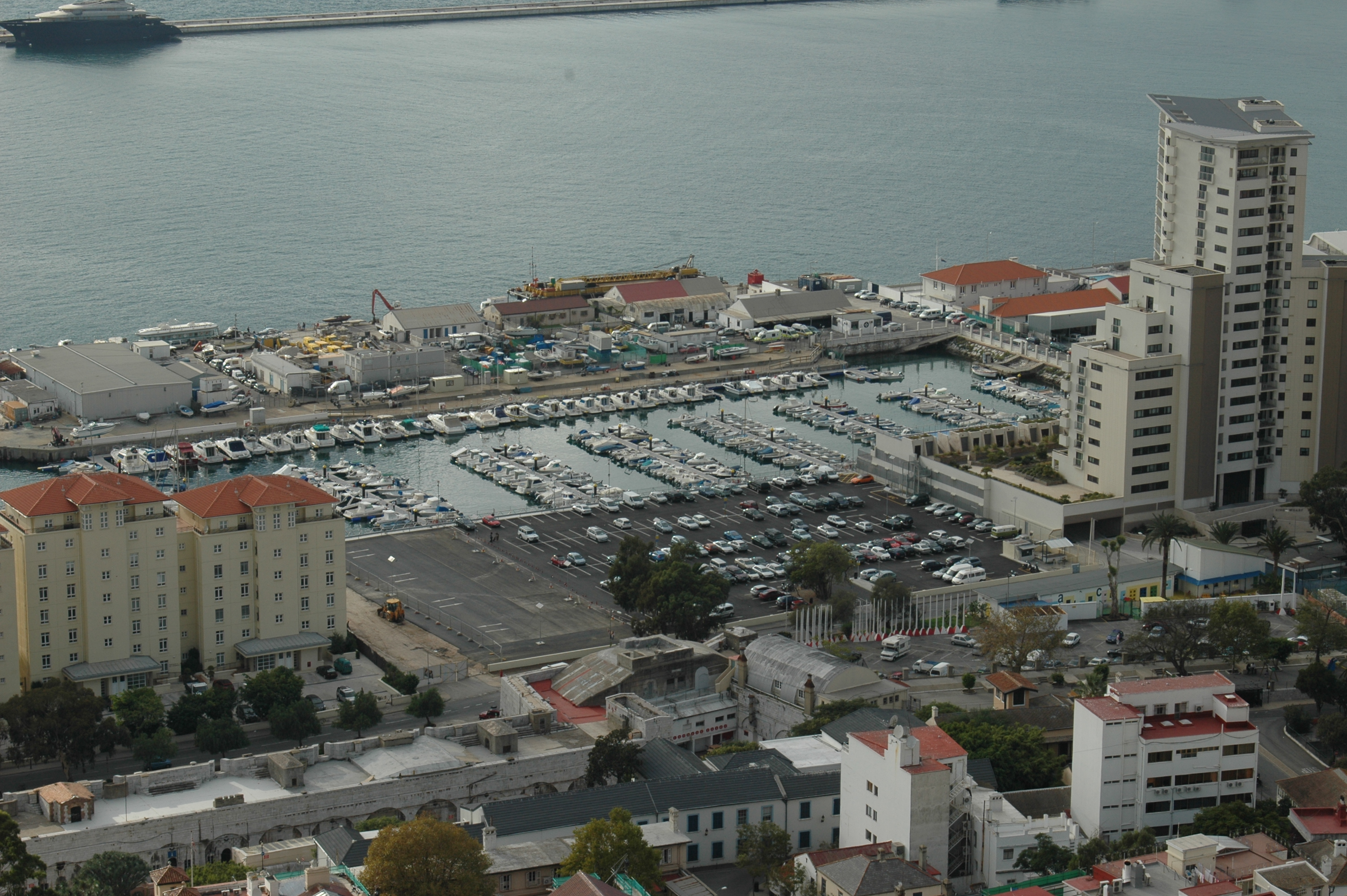 Car park and Quay in Gibraltar